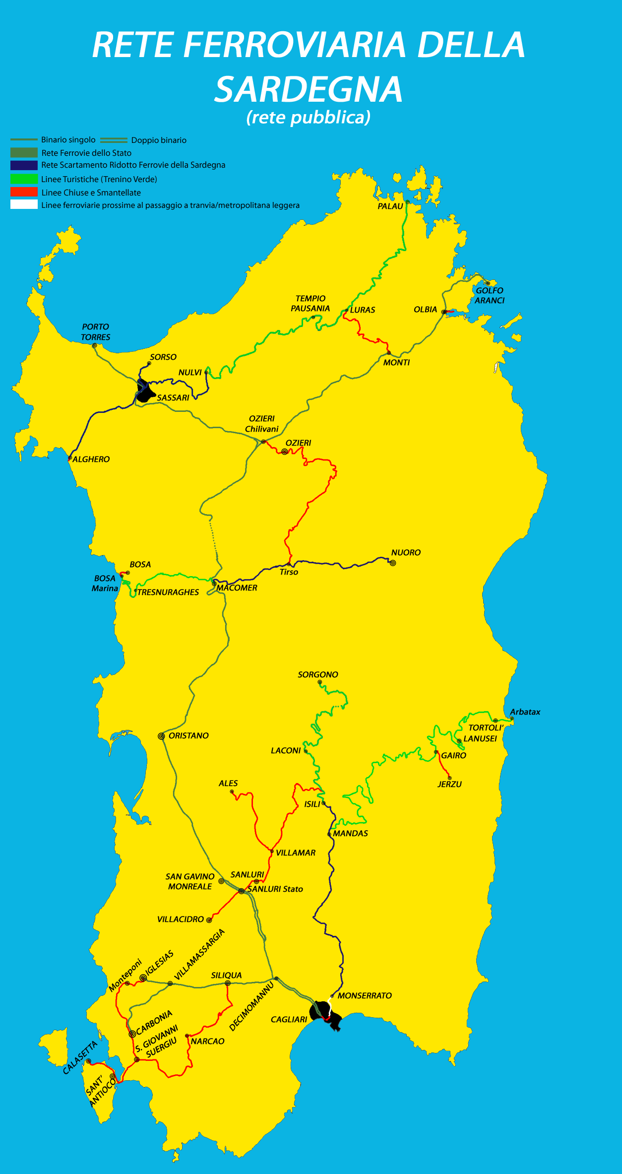 Map of the sardinian railway network. In dark green the Ferrovie dello Stato railways, in blue the Ferrovie della Sardegna ones, in light green the Trenino Verde turistic railways, in red the tracks closed and removed, in white the lines becoming light railway in the next months